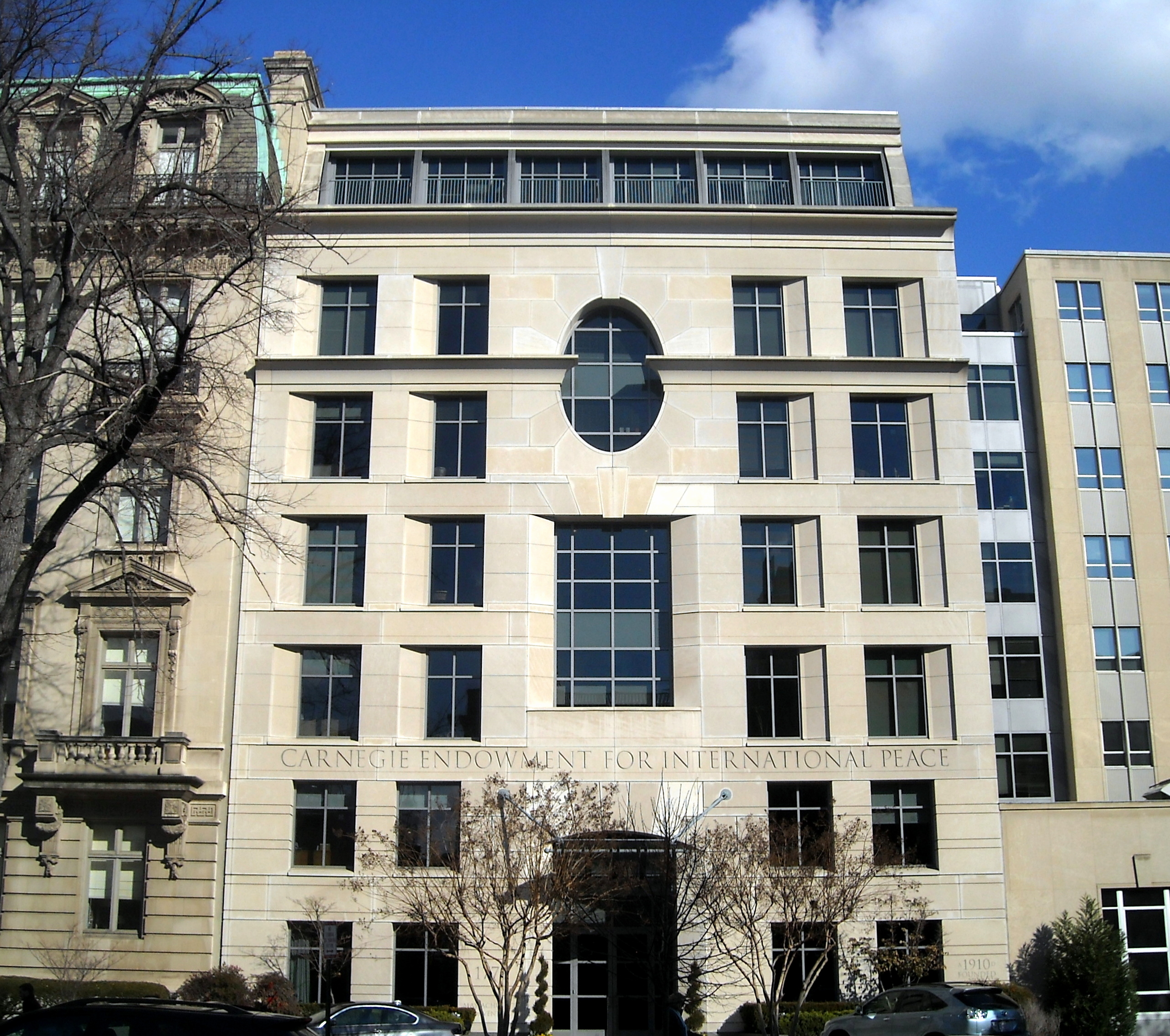 The Carnegie Endowment for International Peace located at 1779 Massachusetts Avenue, NW in the Dupont Circle neighborhood of Washington, D.C.